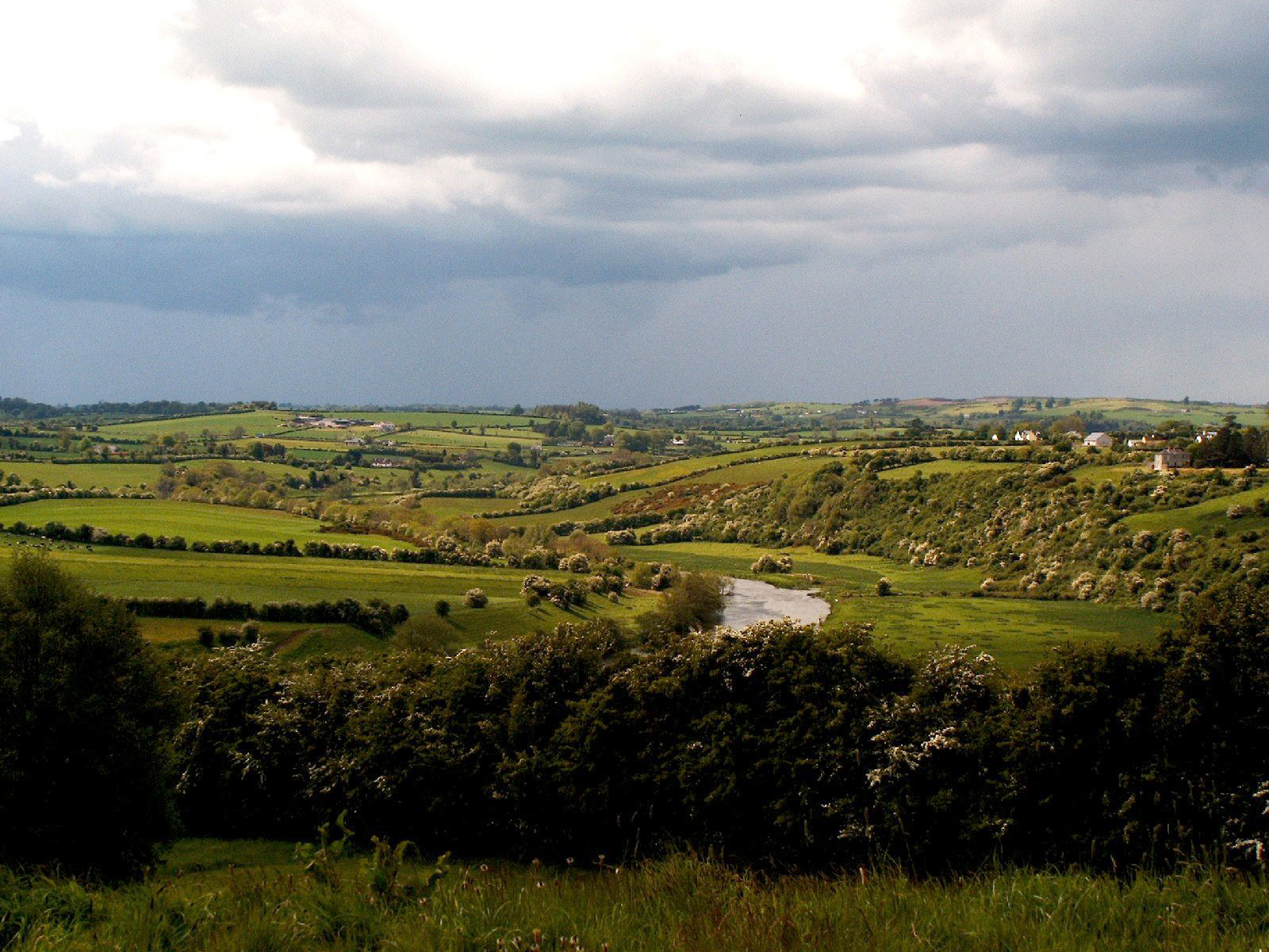 Palace of the Boyne) is an internationally important complex of Neolithic chamber tombs, standing stones, henges and other prehistoric enclosures located in a wide meander of the River Boyne in Ireland. Later, it was used for Iron Age burials. The Normans settled the area in the Middle Ages and in 1690 it was the site of the famous Battle of the Boyne. The site is often referred to as the "Bend of the Boyne", and this is often (incorrectly) taken to be a translation of Brú na Bóinne. It is a World Heritage Site, containing what have been described as the national monuments of Ireland. The site covers 780ha and contains around 40 passage tombs as well as other prehistoric sites and later features. The majority of the monuments are concentrated on the north side of the river. The most well-known sites within Brú na Bóinne are the impressive passage graves of Newgrange, Knowth and Dowth all famous for their significant collections of megalithic art. Each stands on a ridge within the river bend and two of the tombs, Knowth and Newgrange appear to contain stones re-used from an earlier monument at the site. There is no in situ evidence for earlier activity at the site however save for the spotfinds of flint tools left by Mesolithic hunters.